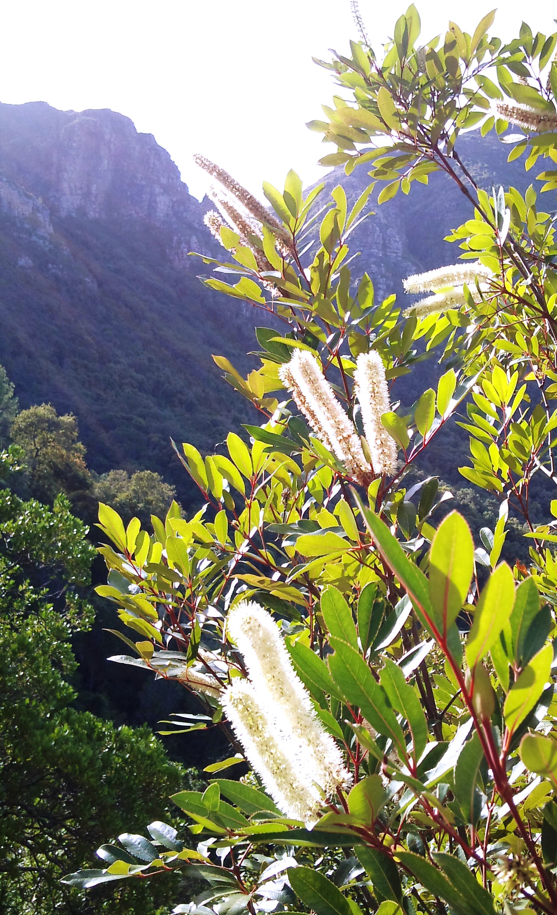 Cunonia Capensis. Rooiels tree. Newlands forest on the slopes of Devils Peak. Table Mountain.